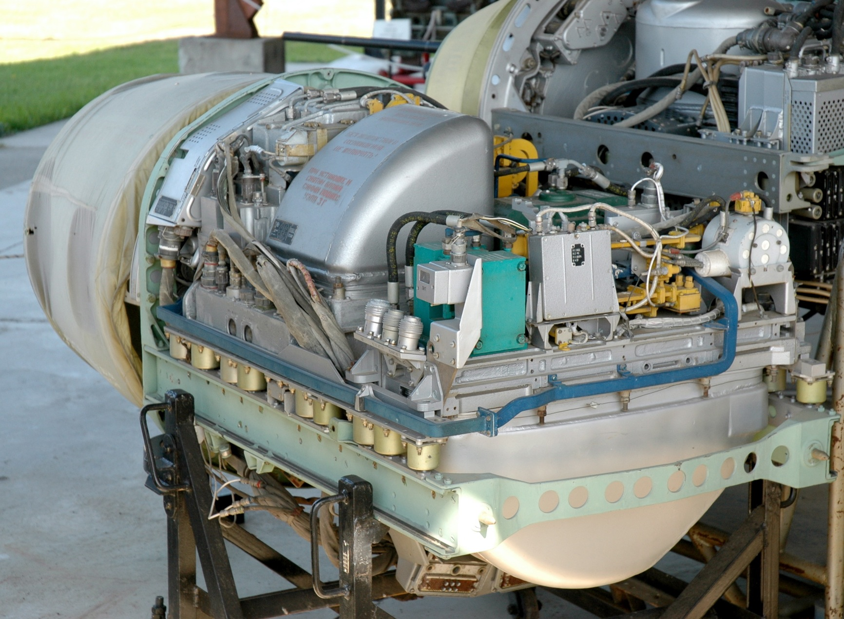 Rear view of RP-23 Sapfir-23 radar (used on MiG-23), displayed at the Hungarian Aviation Museum, Szolnok